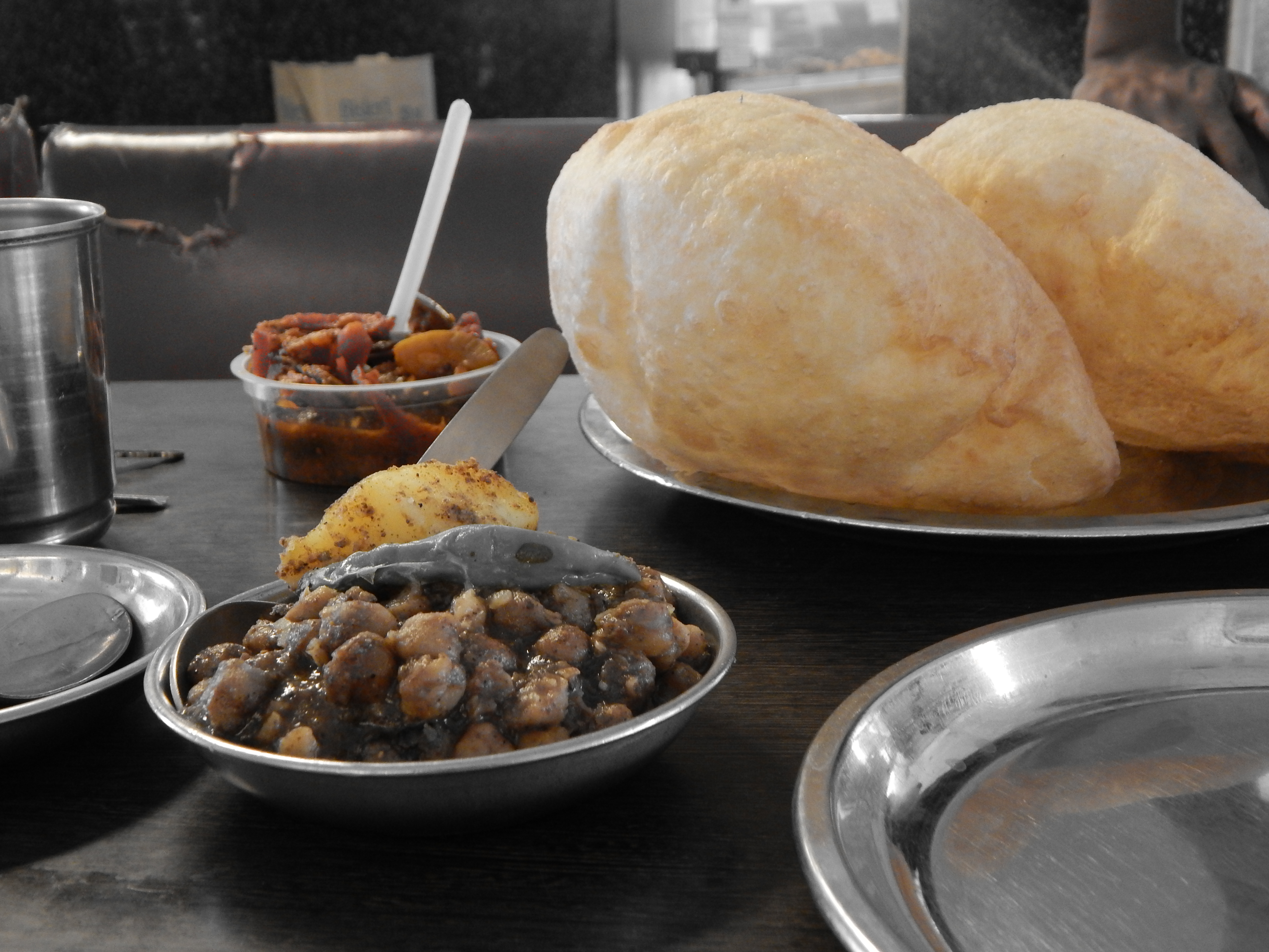 A popular north Indian snack comprising flat, thin, fried breads(chole) served with spicy gram. Pickle and onion are sides.